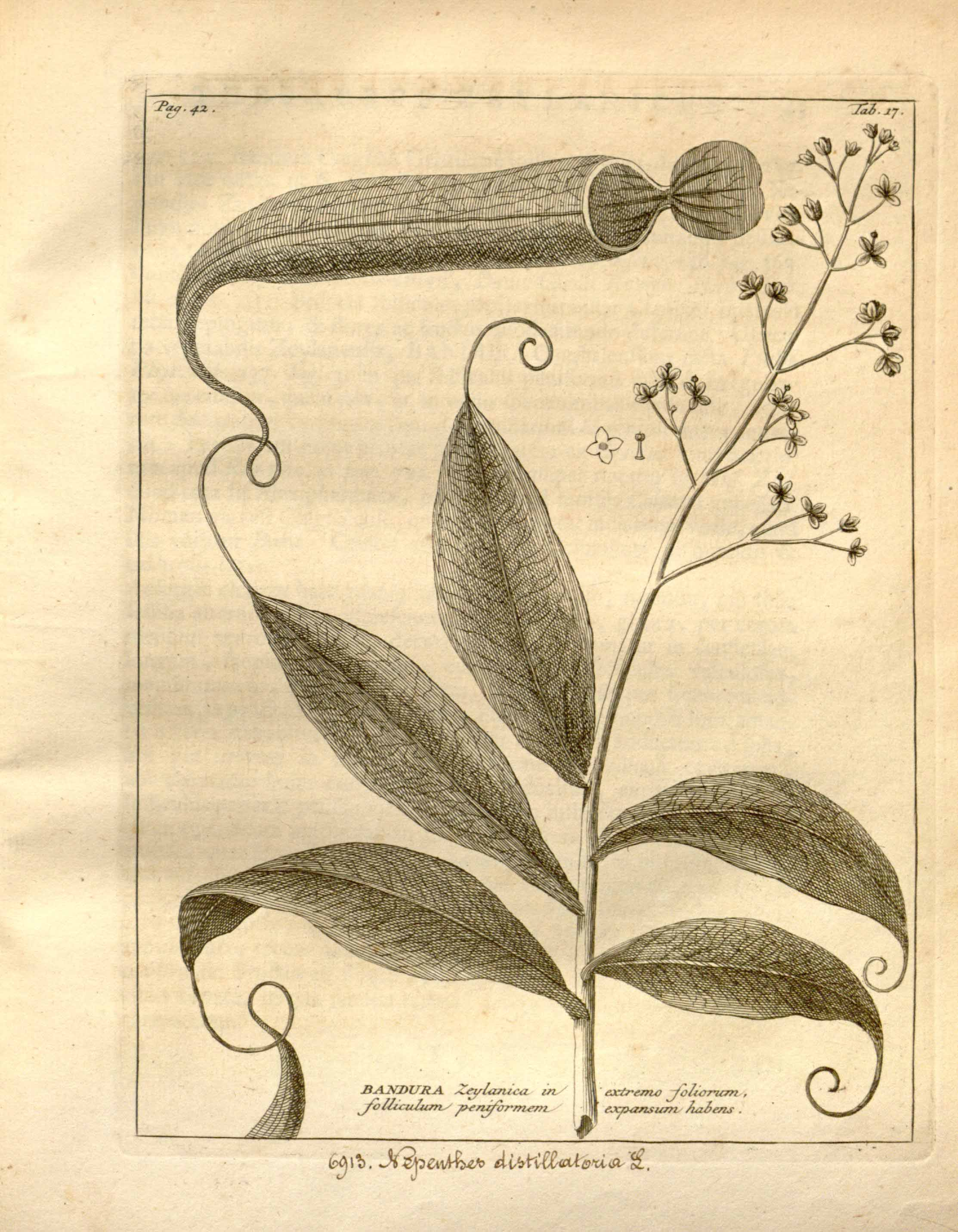 Nepenthes distillatoria from Thesaurus zeylanicus, t. 17 (1737)